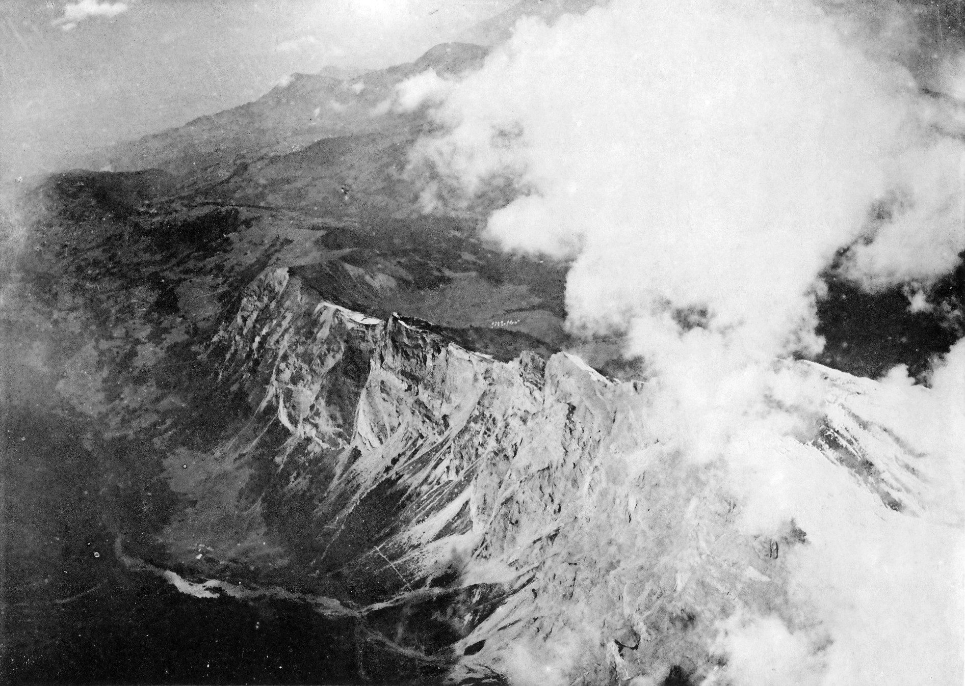 View of the village of Taveyanne (Taveyanaz), Switzerland; in the foreground right Les Diablerets. Photographed from the balloon "Wega" from 4100m above sea level. View towards the west.